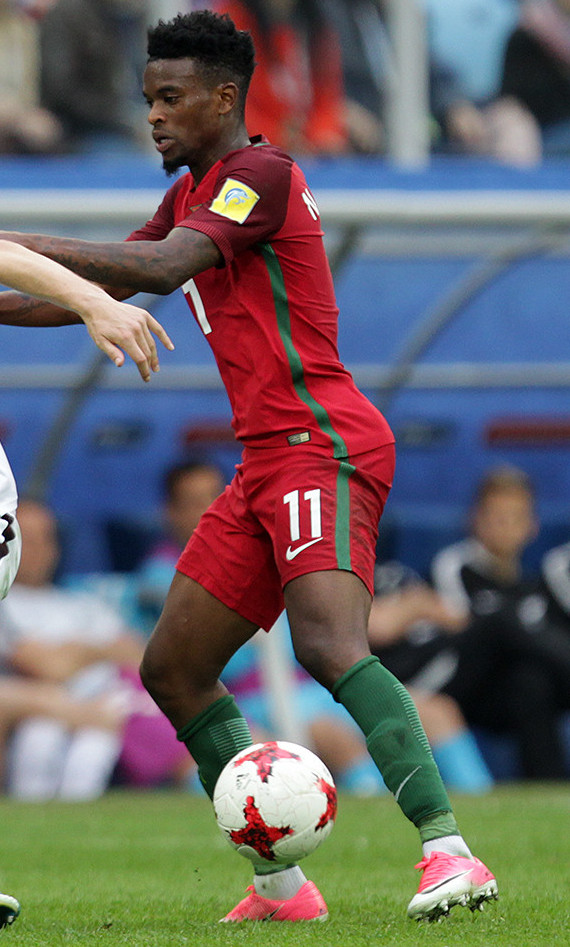 New Zealand VS. Portugal 0 - 4, 24 June 2017